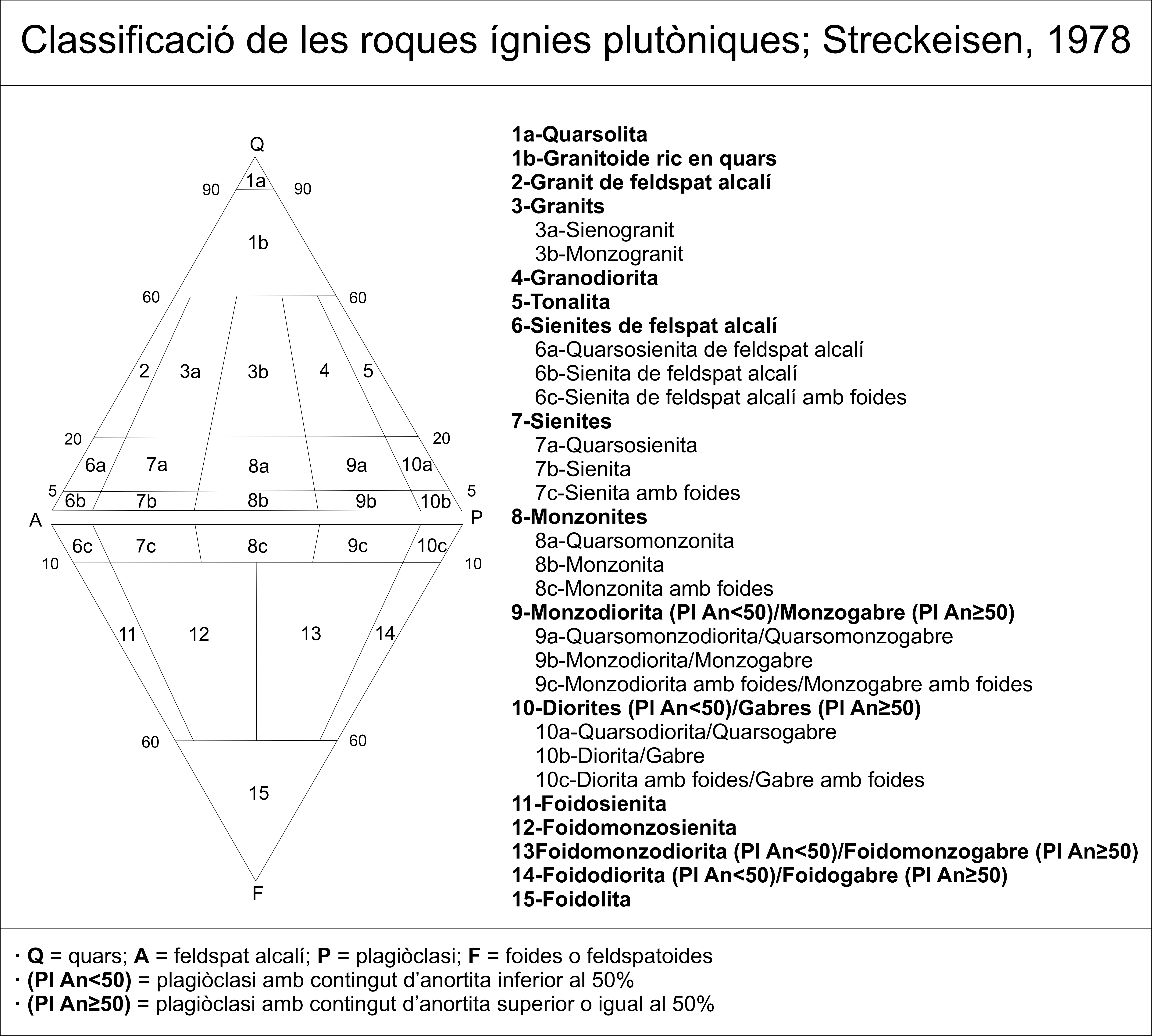 Plutonic rocks classification (Streckeisen, 1978)